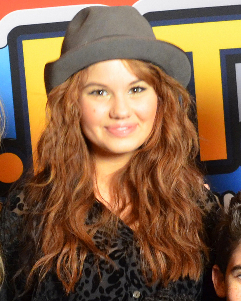 Debby Ryan at the Radio Disney's Season 4 "N.B.T." Winner Finale Concert 2011.